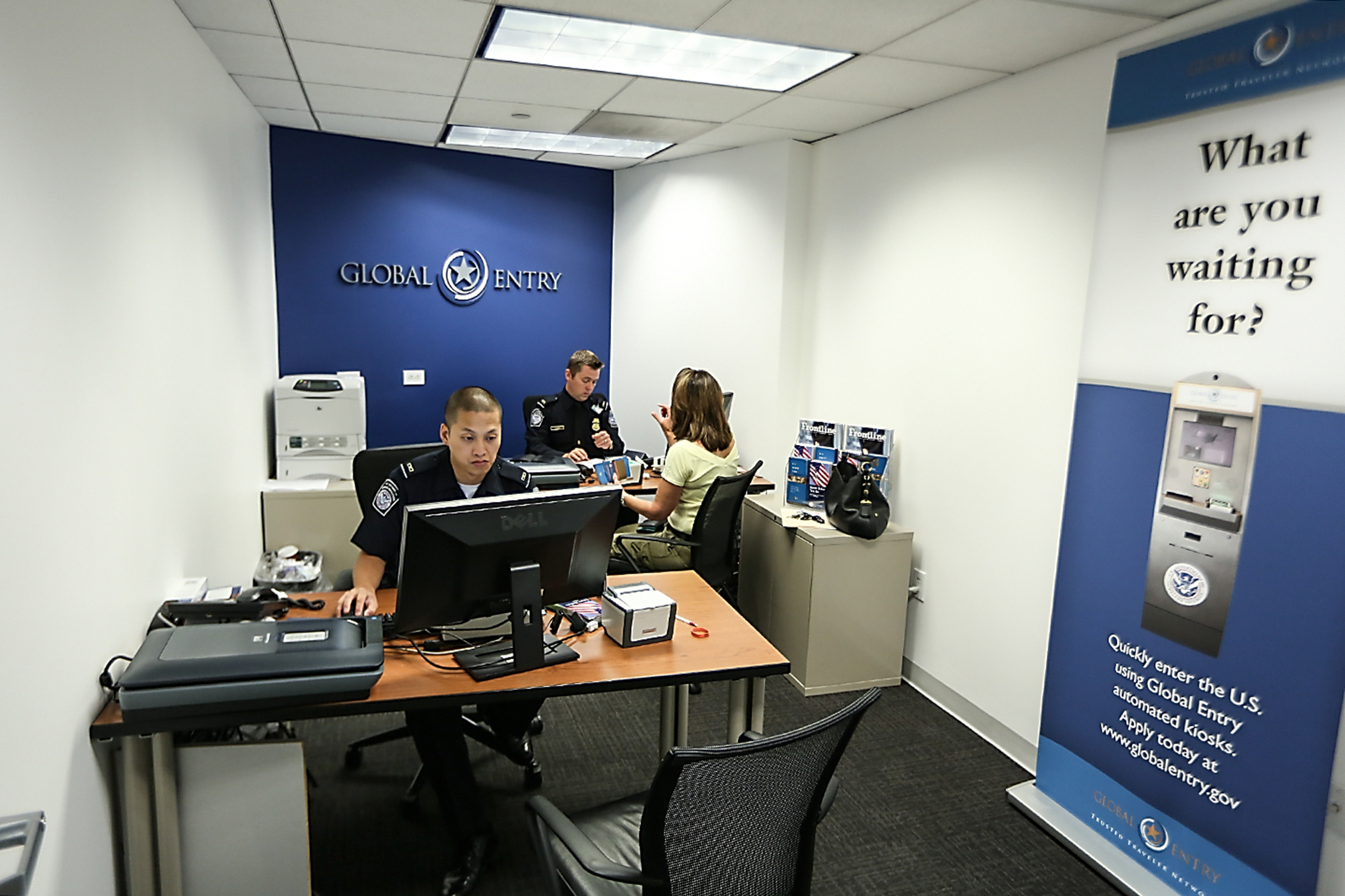 061813: Washington, DC - A CBP officer collects information from an enrollee during a Global Entry interview at the Ronald Reagan building. Photographer: Josh Denmark